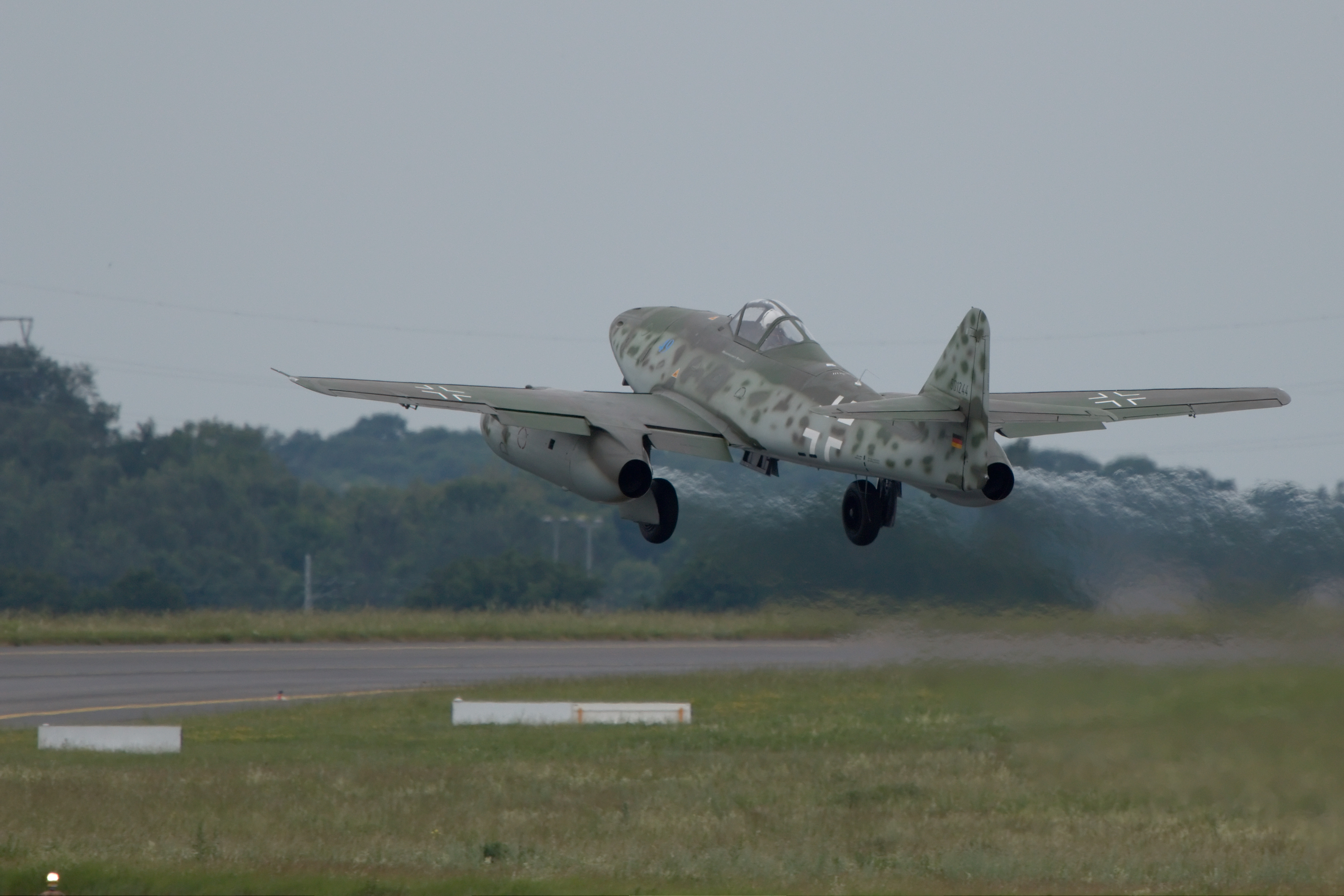 Me 262 B-1a (replica, Messerschmitt foundation)